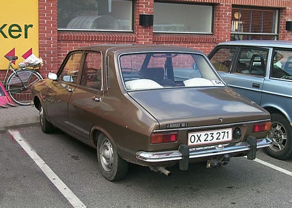 A 1974 Renault 12 L (chassis number R11703774895)in Denmark. Out of traffic since 2000, according to the Danish registration authorities.